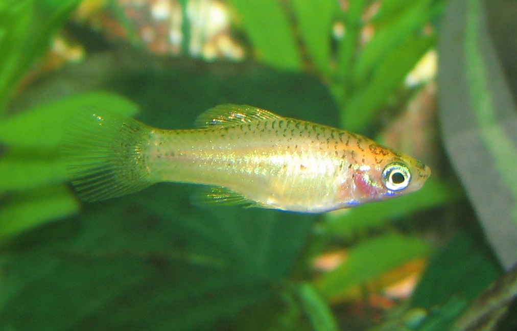 Swordtail Fry (Xiphophorus hellerii) at 7 months old